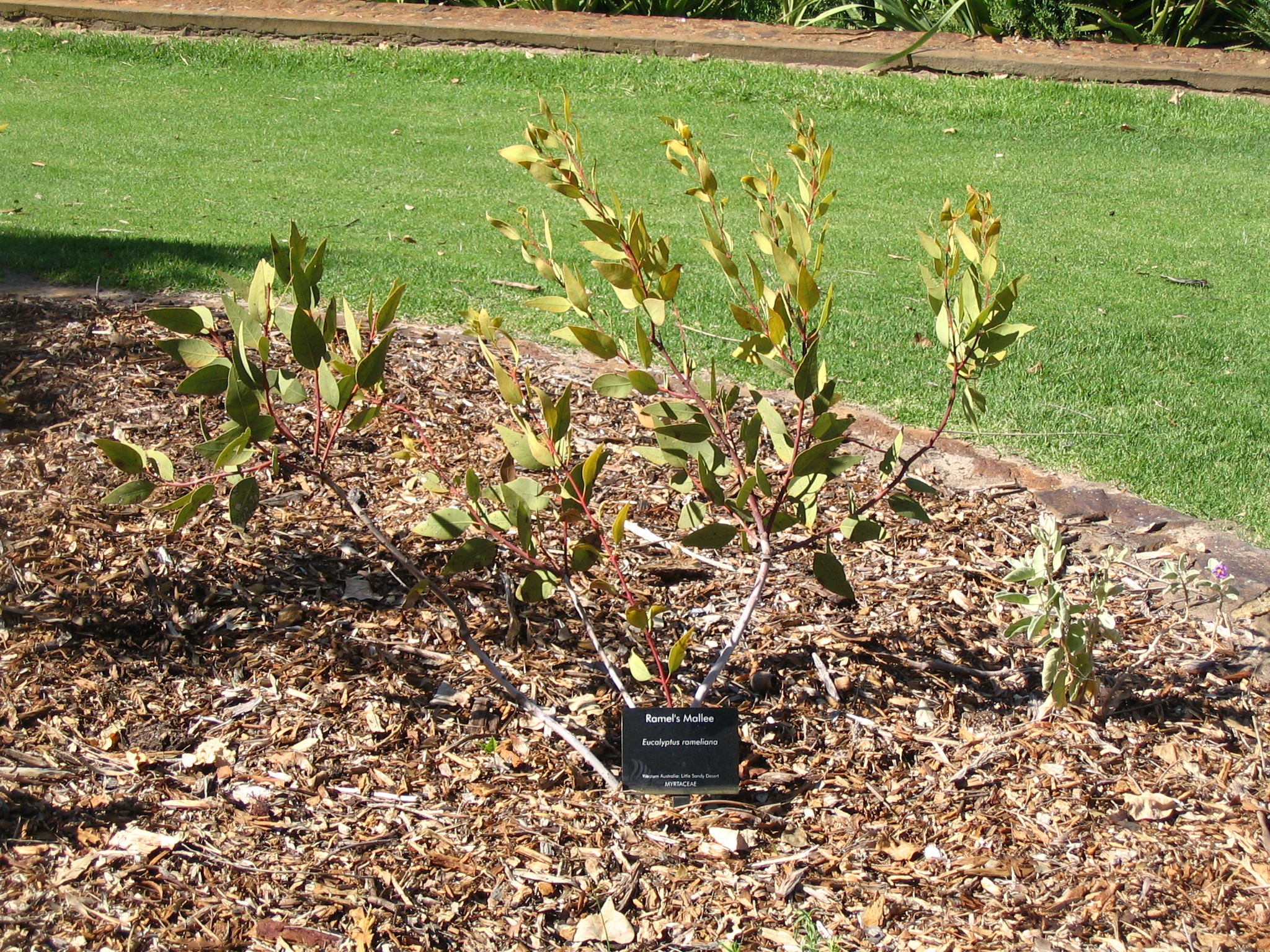 Ramel's Mallee (Eucalyptus rameliana) plant in Kings Park, Perth, Australia.